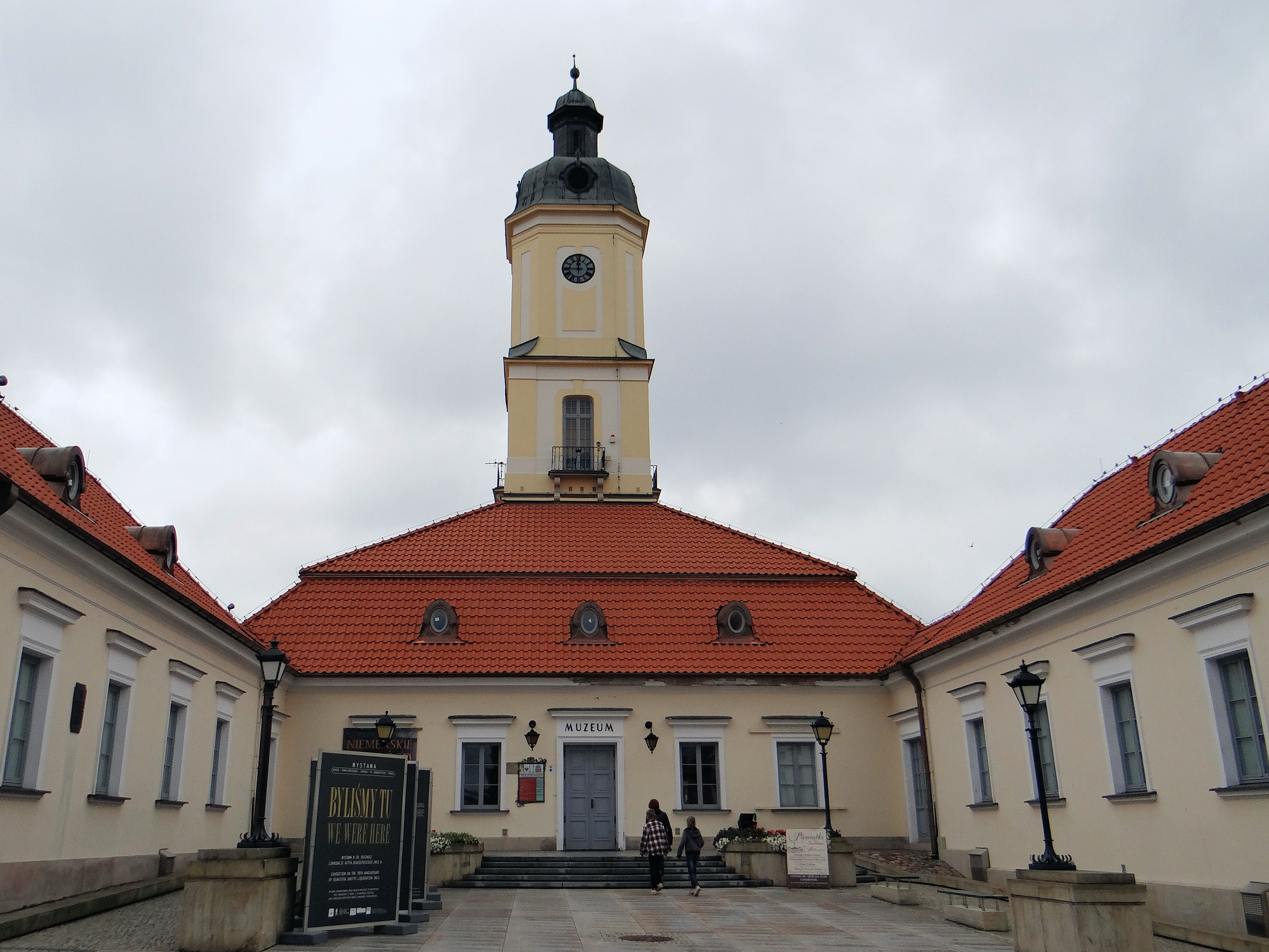 Town hall in Białystok